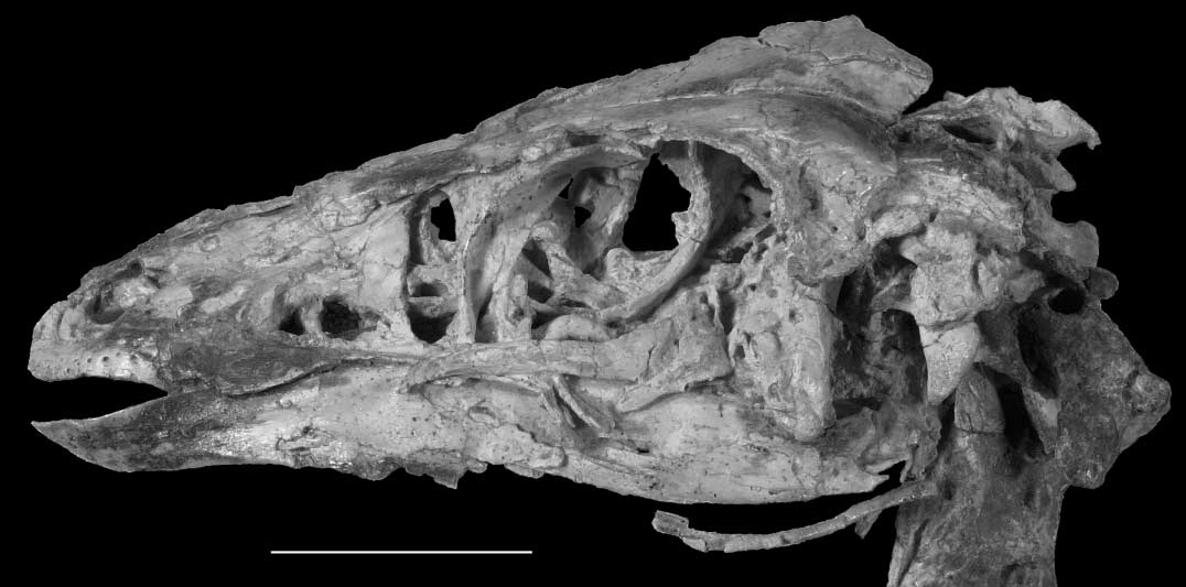 Skull of Sinornithomimus dongi gen. et sp. nov. (IVPP−V11797−10) in left lateral view. Photograph (A) and explanatory drawing of the same (B). Scale bar 5 cm.